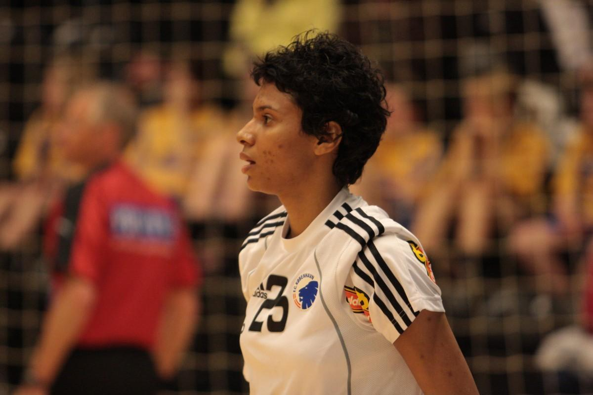 Emilia Turey, Russian handball player, during a 2008/09 Danish Championship play off match between FC Midtjylland and FCK. The picture was taken at Ikast-Brande Arena on 22 April 2009.